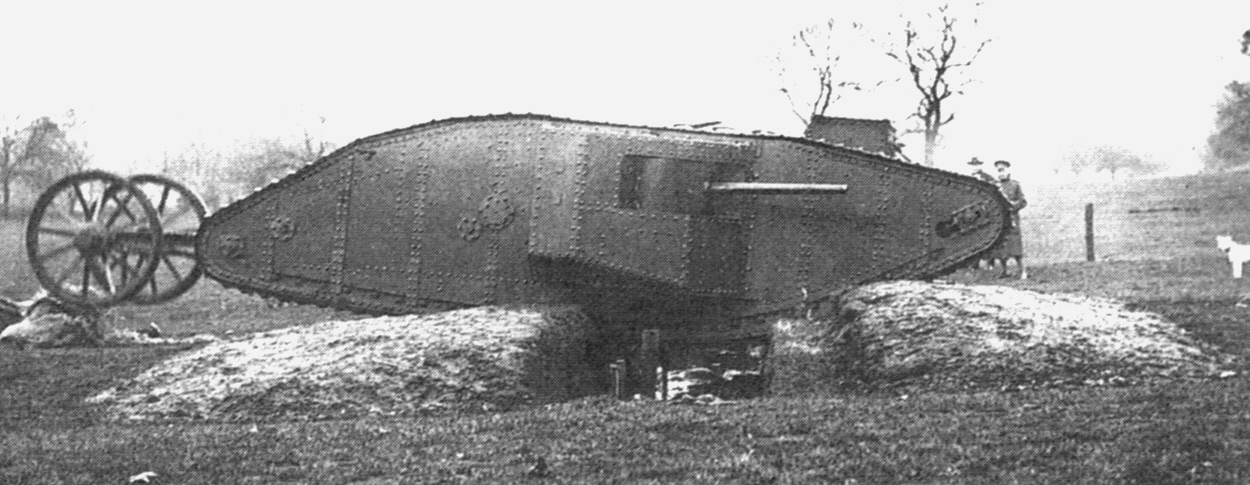 The prototype Mark I tank "Mother" during trials in the grounds of Hatfield House, 1916